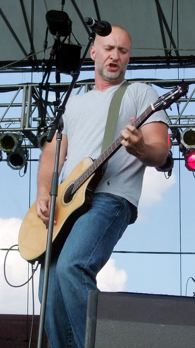 Photo of Bob Mould at McCarren Park Pool on July 7, 2007. Line 6 Variax acoustic guitar. Source: [1] Photo by: Gaelen Hadlett Cropped from original photo.